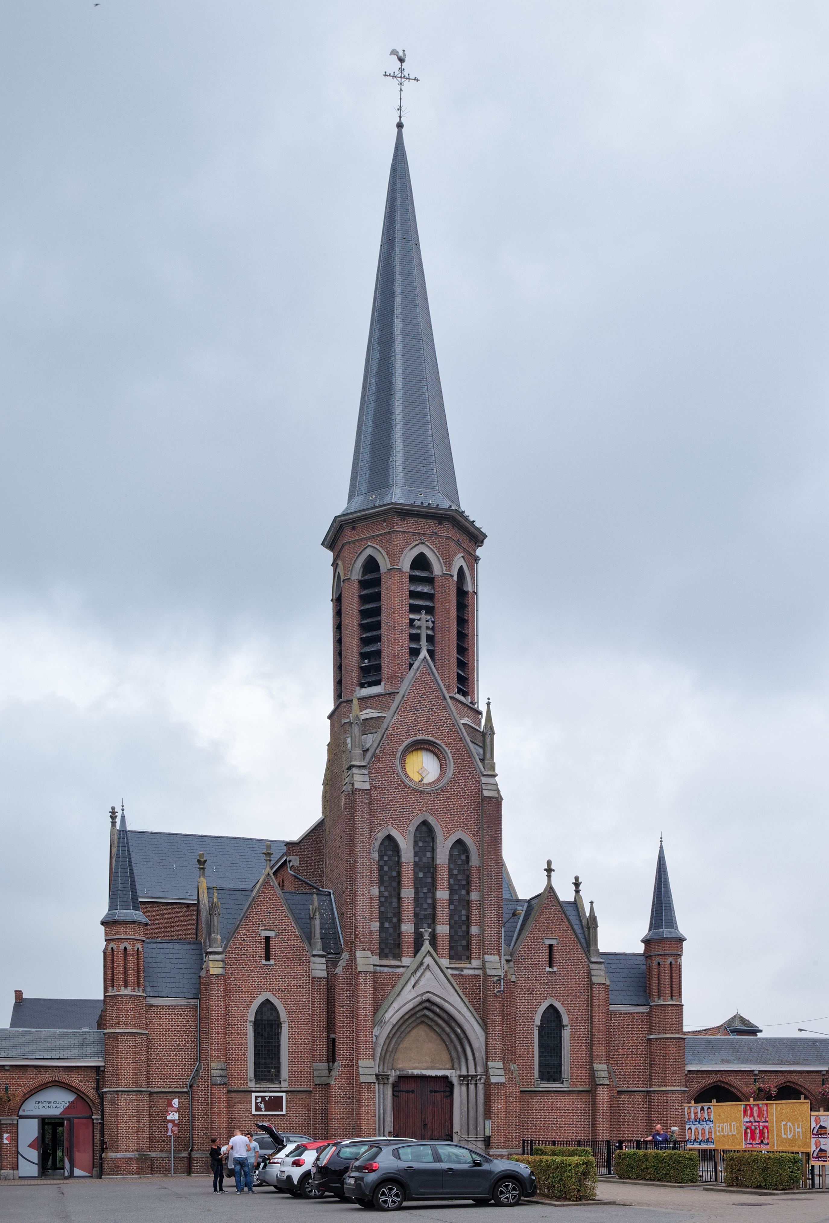 Saint-Pierre Church in Liberchies, Pont-à-Celles, Belgium This photo of immovable heritage has been taken in the Walloon Region